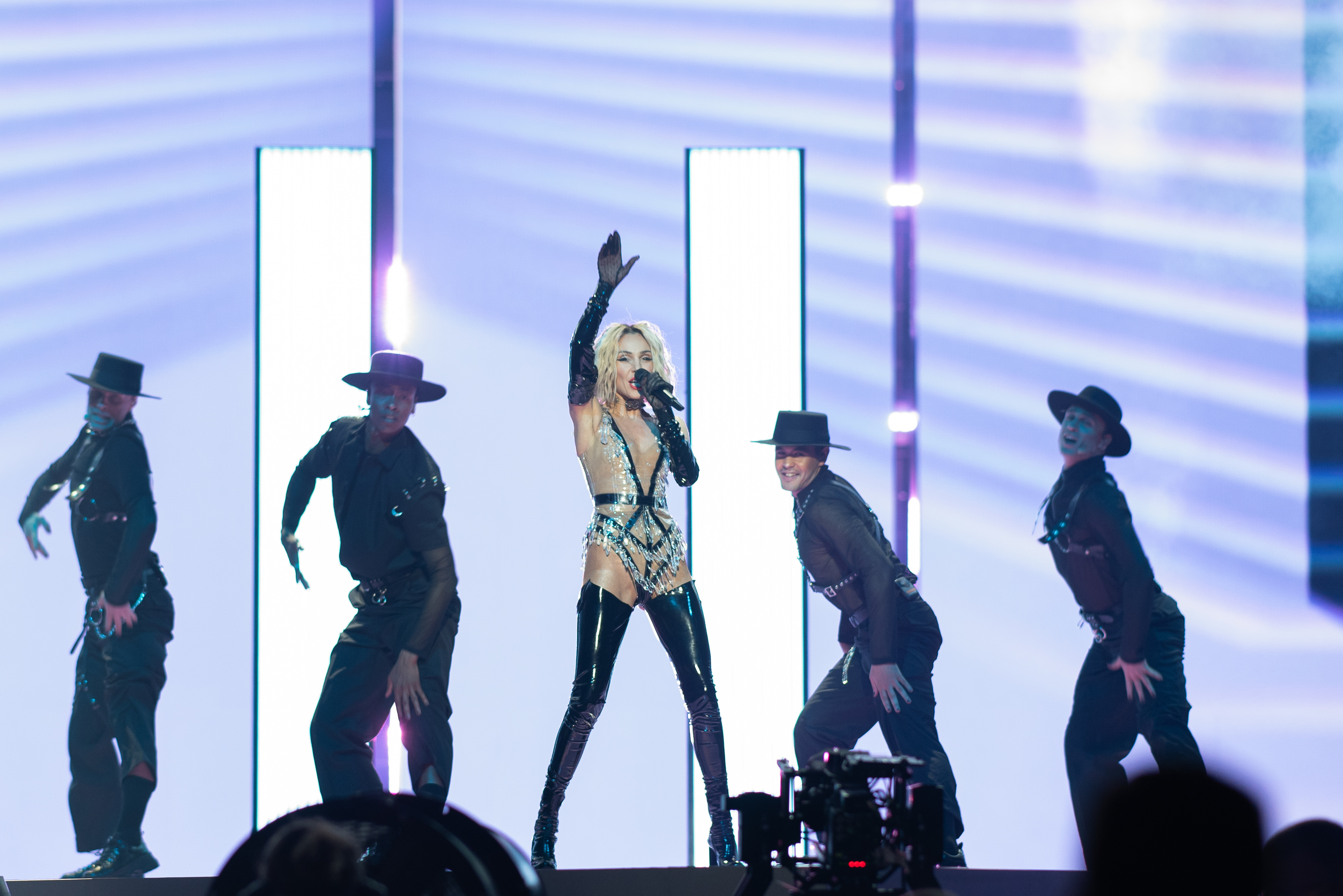 Tamta representing Cyprus with the song "Replay" during a rehearsal before the grand final of the Eurovision Song Contest 2019 in Tel-Aviv.